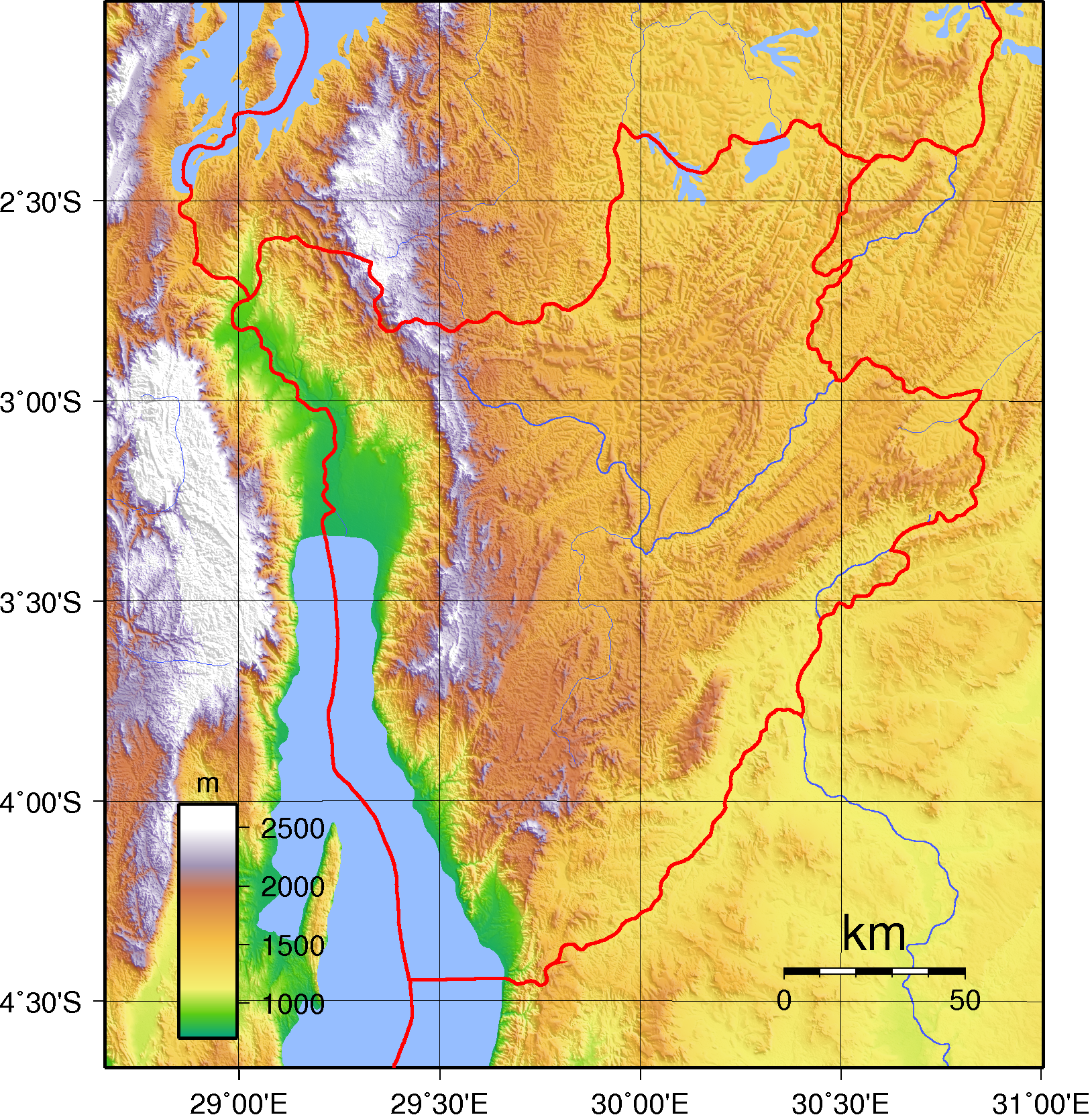 Topographic Map of Burundi. Created with GMT from public domain SRTM data.